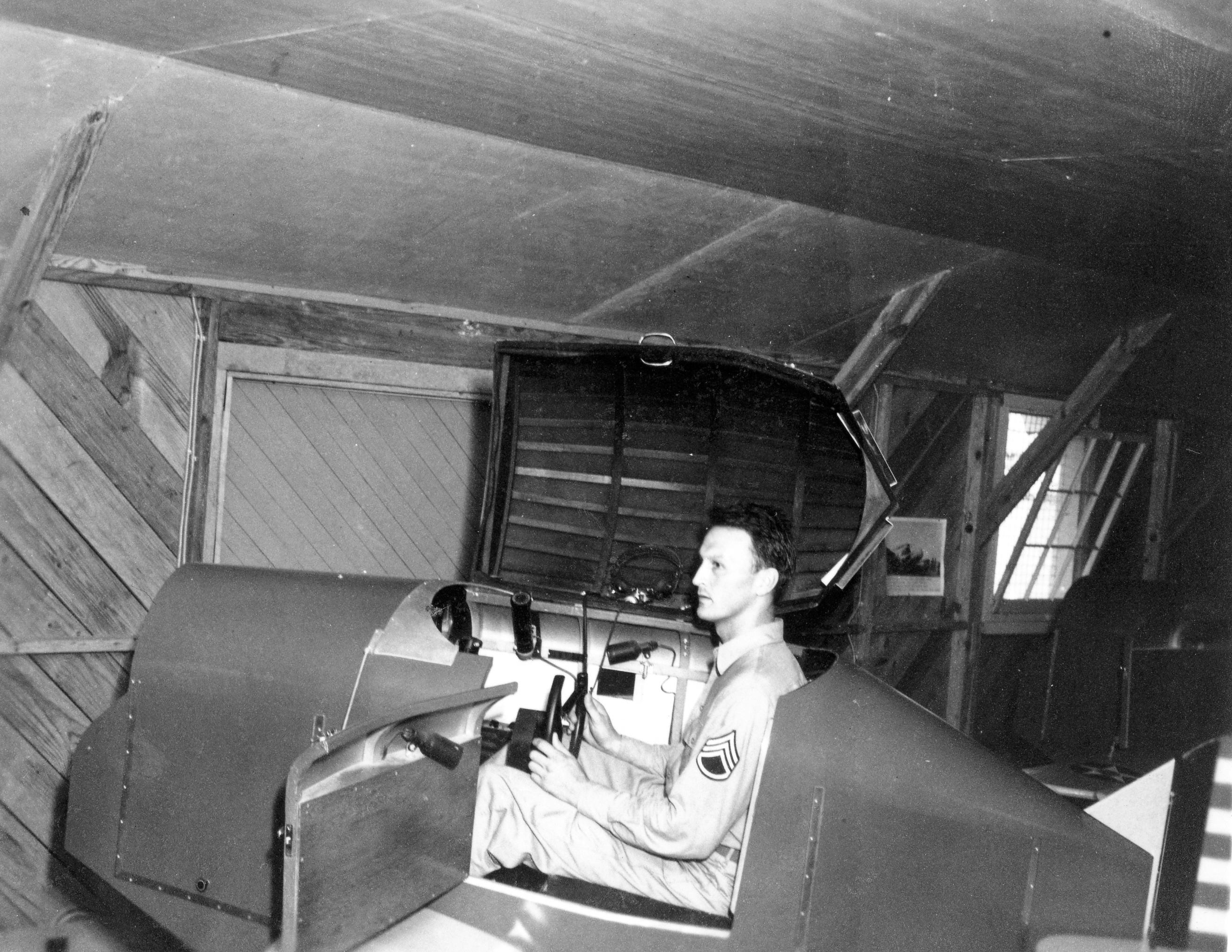 This photograph was made at Freeman Field, Seymour, Indiana. TSgt James R. Schneid is shown at the controls of this early flight simulator.